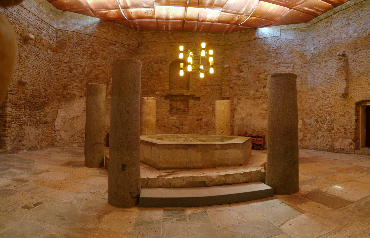 The baptistery of the basilica of the Assumption of St. Mary in Aquileia, in the Province of Udine, Friuli-Venezia Giulia